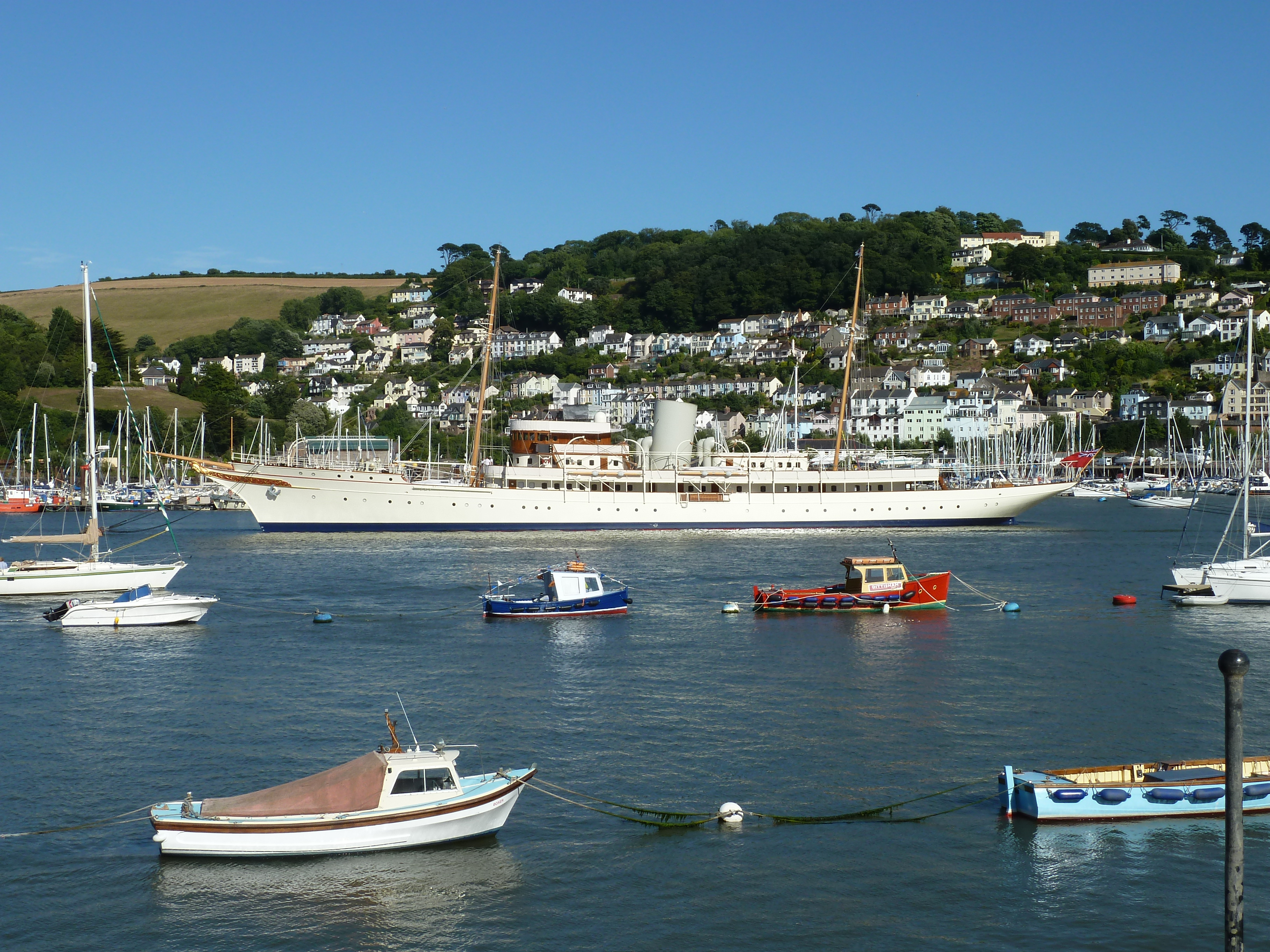 Motor Yacht Nahlin, photographed in Dartmouth, Devon on 17 July 2010